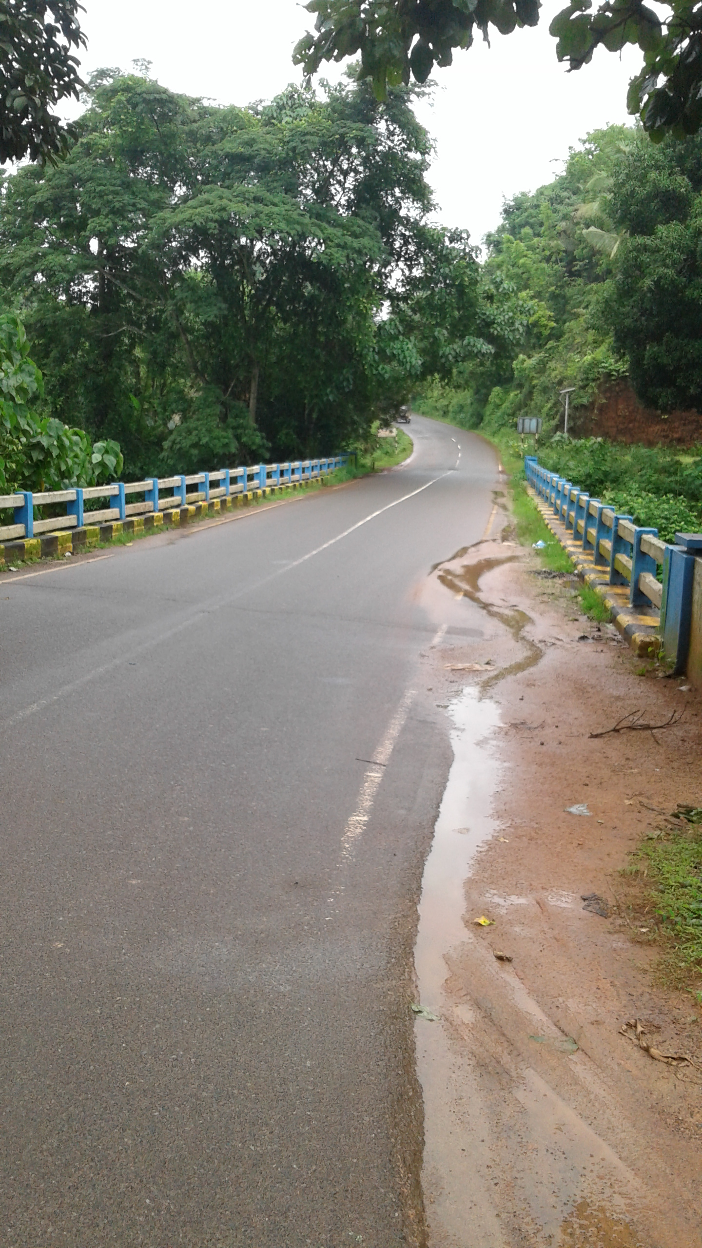 Kasaragod to Sullia Road, Kasaragod district, Kerala state, India.